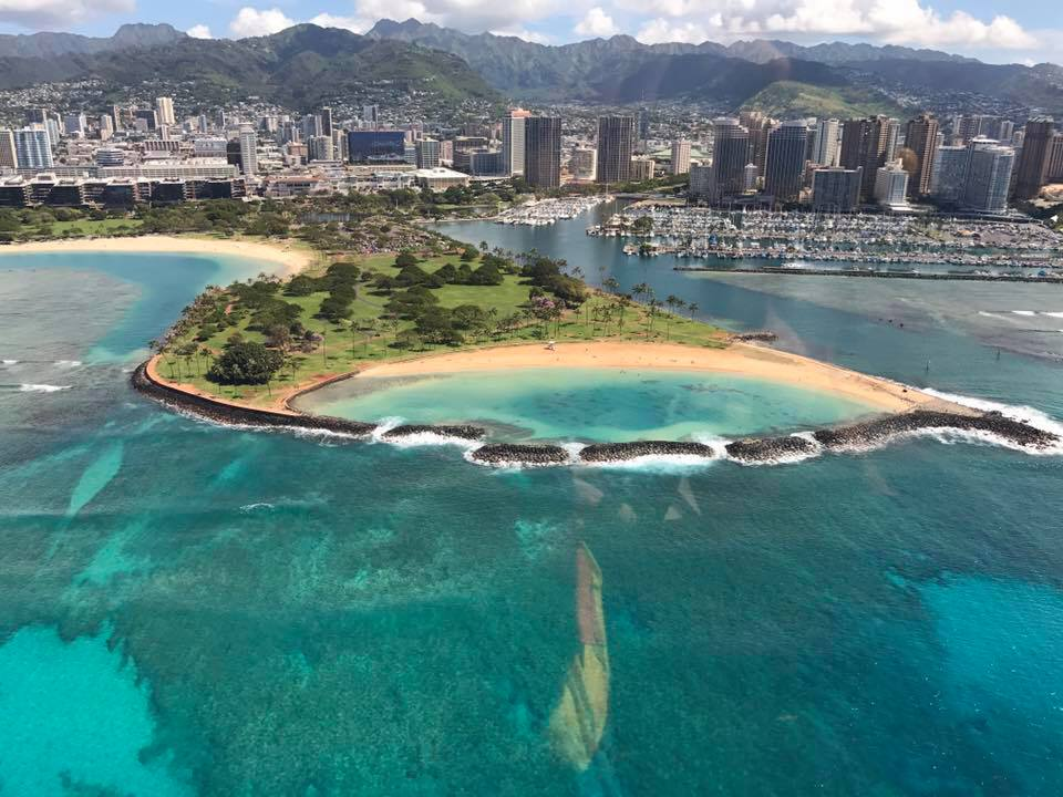 This picture is of part of the island Oahu in Hawaii. It was taken on a helicopter ride and shows part of the city and a beach.